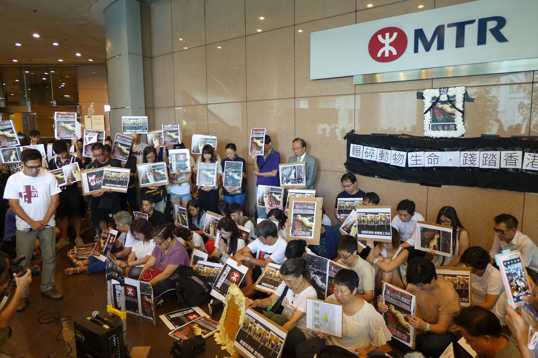 MTR Protest on 22 August, 2014